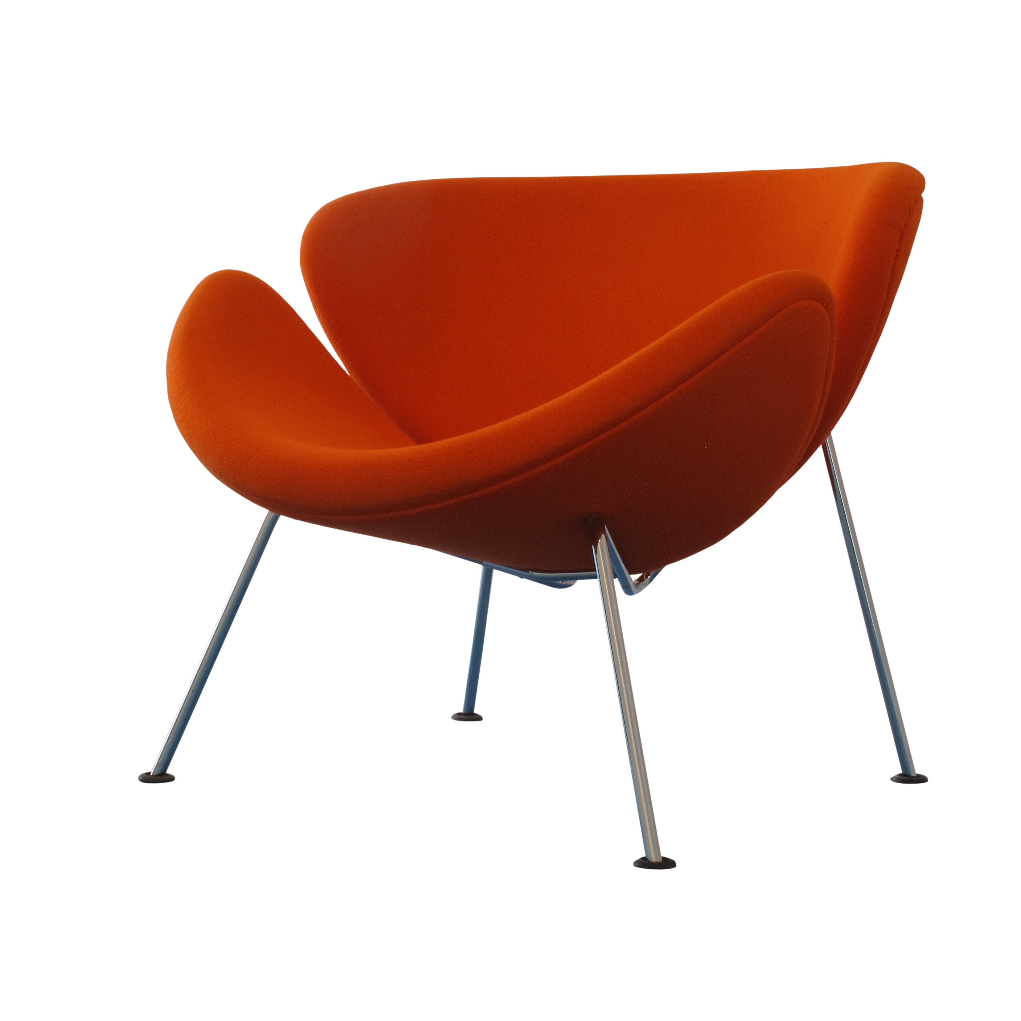 Orange Slice chair, by Pierre Paulin (Artifort, 1960)